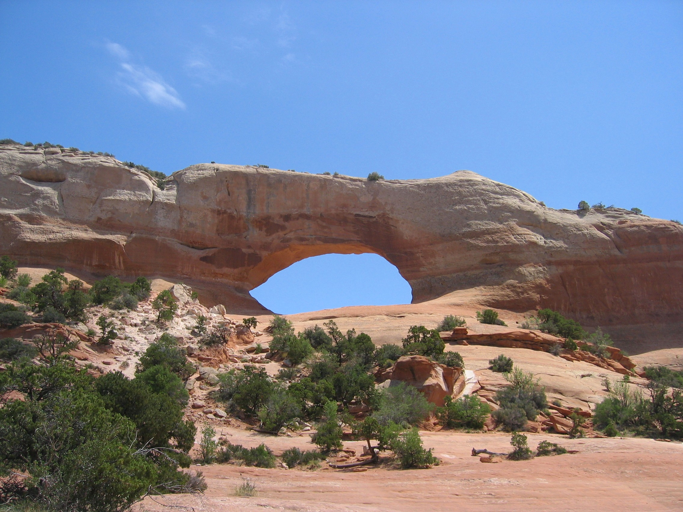 Photo of Wilson Arch. It is located about 24 miles south of Moab, Utah, USA.